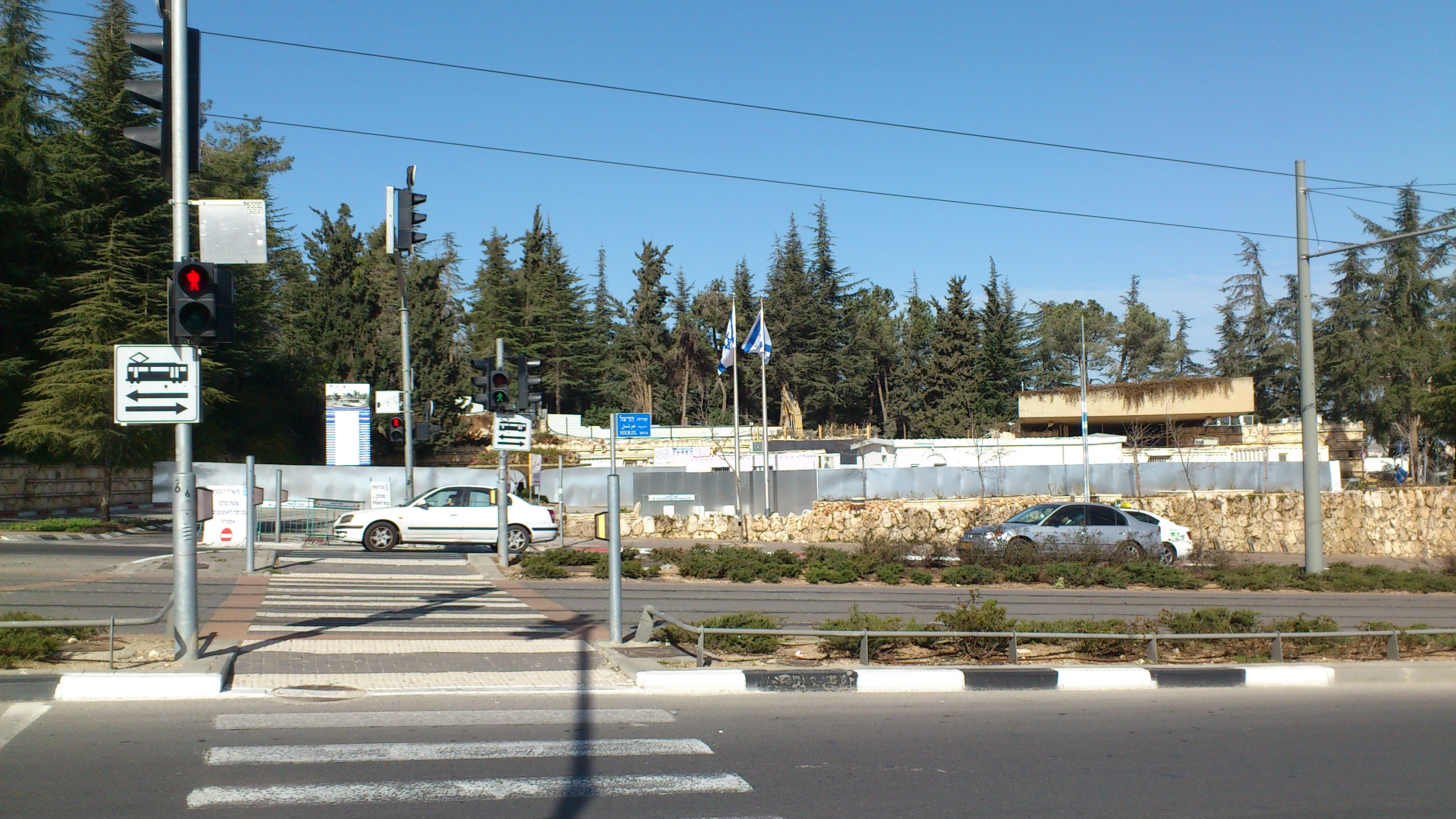 Mount Herzl Military Cemetery - National Memorial Hall